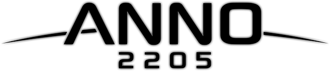 Anno 2205 video game logo.